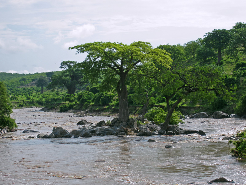 Rainy season in Ruaha, Tanzania, early January 2012